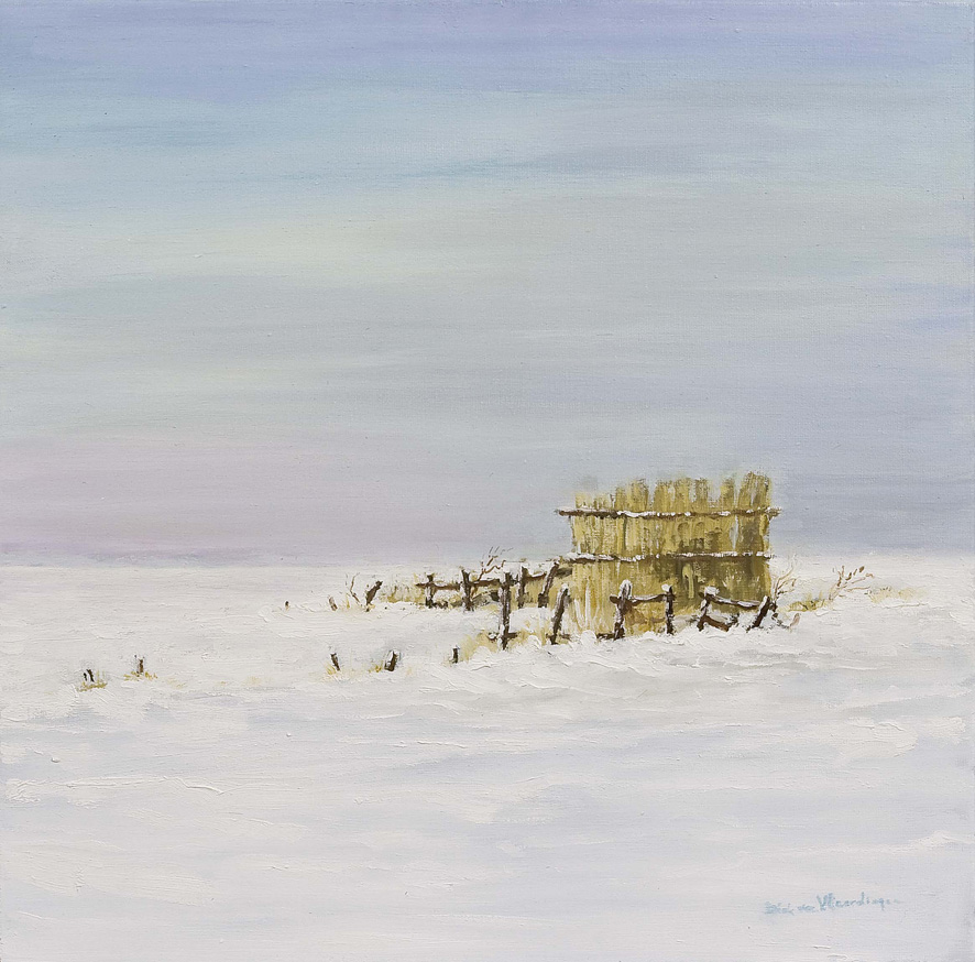 Duck decoy, winter at Loosdrecht